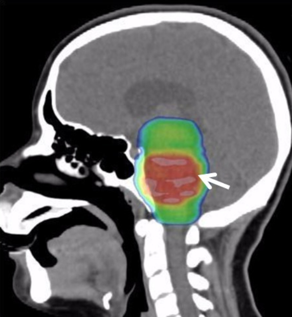 Treatment plan for a 16-year-old female with a diffuse intrinsic pontine glioma. Sagittal slice of a dose color wash of a 10-beam non-coplanar intensity-modulated radiation therapy (IMRT) plan (white arrows) to 54 Gy in 30 fractions.